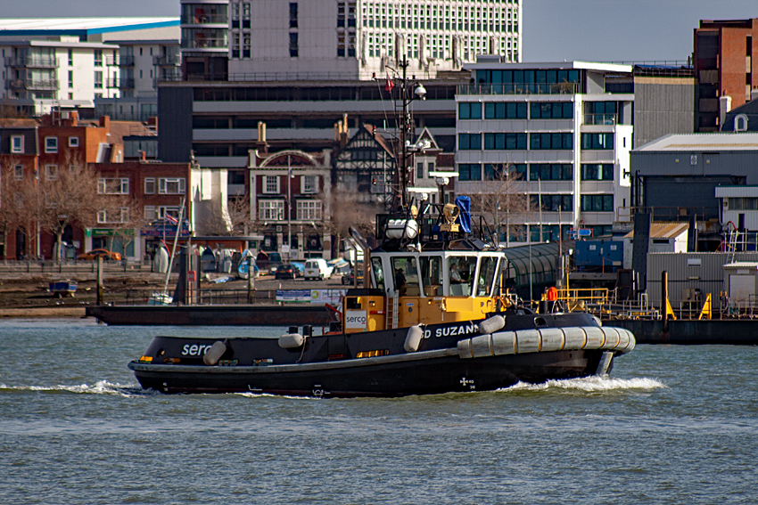 SD Suzanne Serco Marine class ASD2009 tug passing Portsmouth Point Information about the vessel may be found at IMO 9533749.A ship can change name and flag state through time, but the IMO number remains the same through the hull's entire lifetime. As a result, it can be useful to identify a ship by using the IMO number.